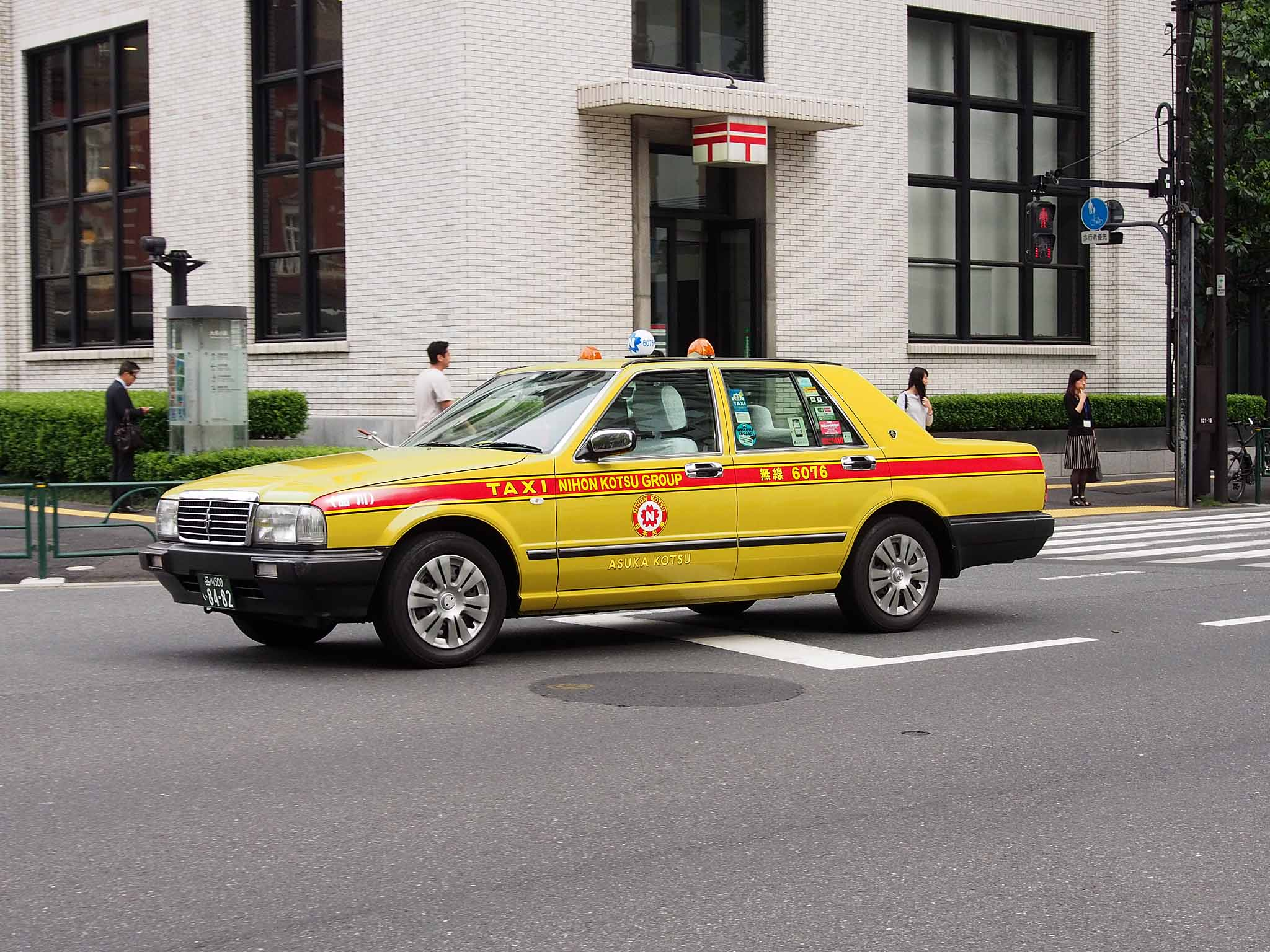 Fleet of Aska Traffic group, painted Nihon Kotsu color, and lettered "ASUKA KOTSU" since December 2016. License plate: TKS500 I8482 Place: Marunouchi, Choyoda Ward, Tokyo Japan